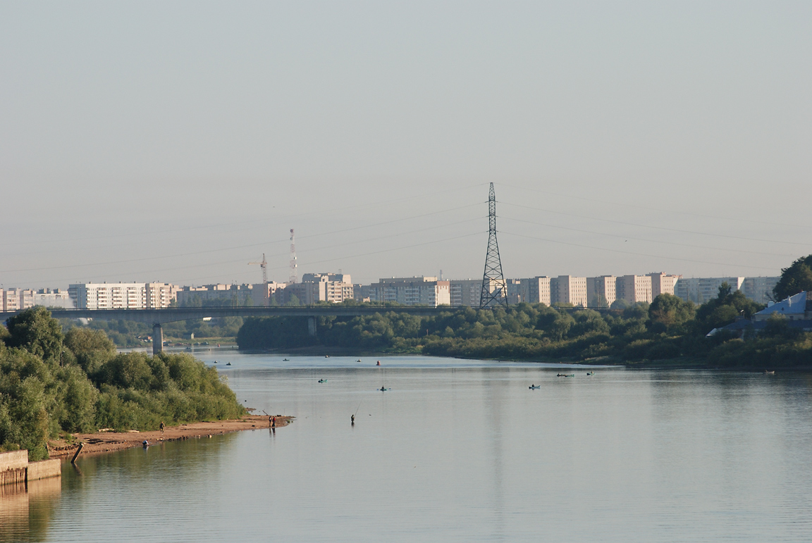 View from Alexander Nevsky bridge, north, over river Volkhov.